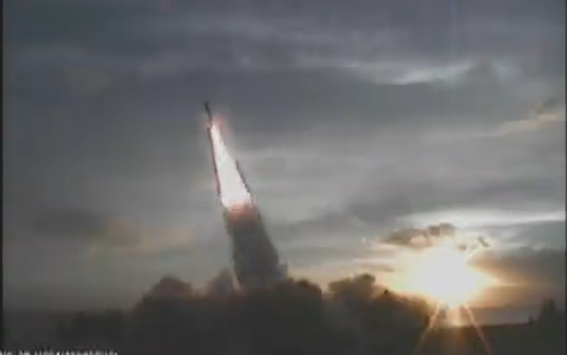 Super Strypi launches the ill-fated ORS-4 mission.